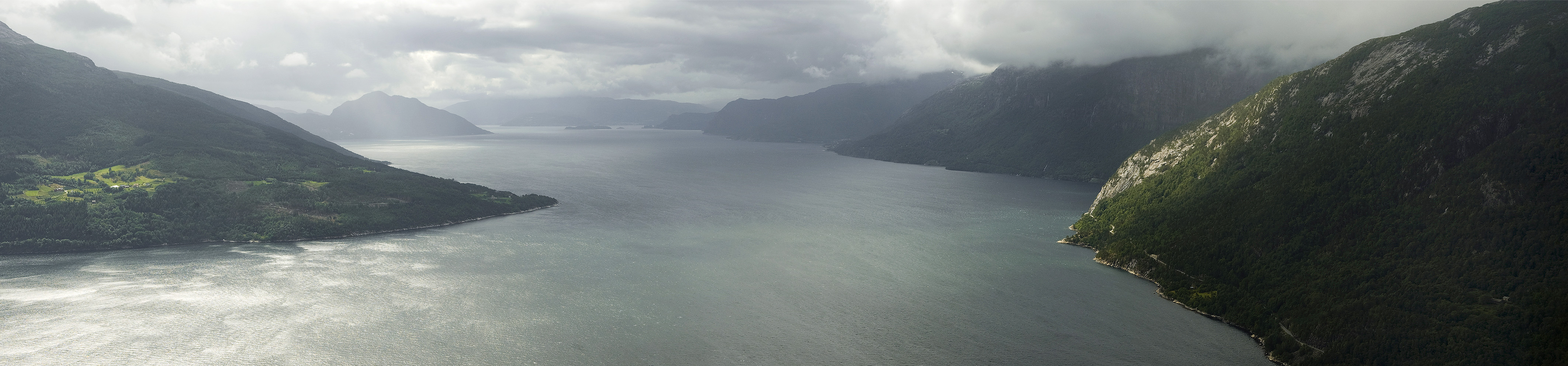 The Hardangerfjord in the county of Hordaland, Norway. View towards Norheimsund from the sides of mount Rindanuten in Ullensvang municipality, near Granvin (handheld panorama from 4 photos).